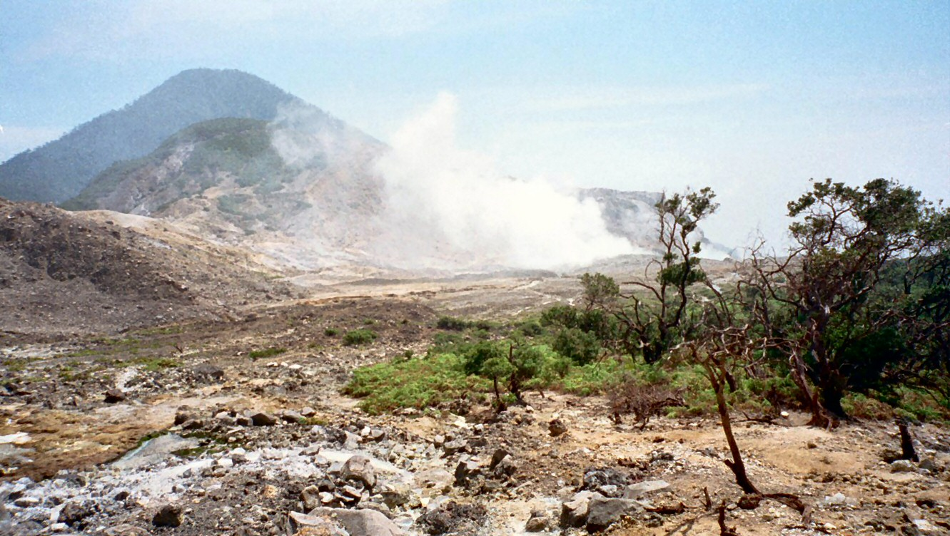 Indonesia Papandayan volcano Picture taken by Hullie august 1997